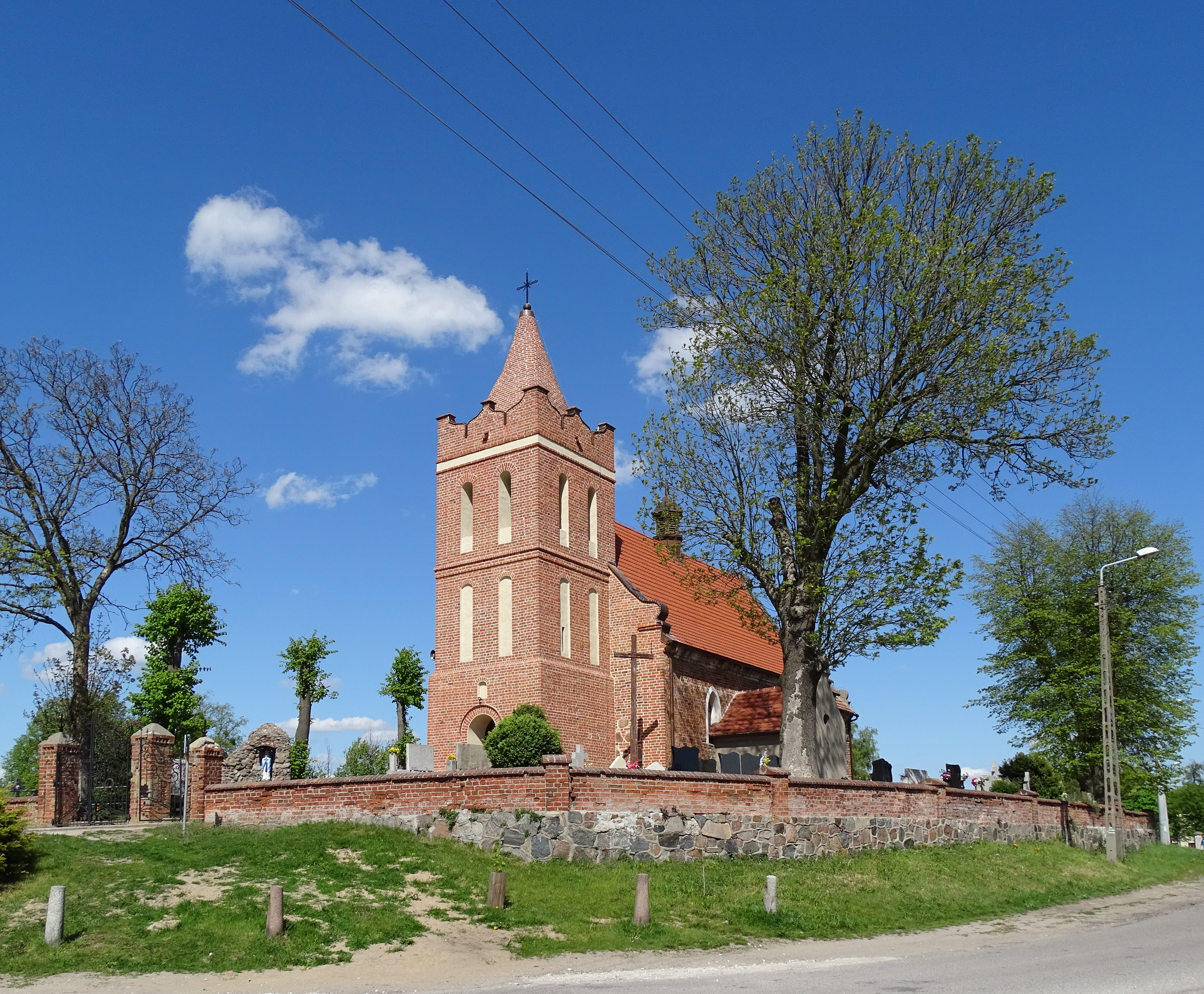 Gronowo, Kuyavian-Pomeranian Voivodeship, Poland. Church of Saint Nicholas from the first half of the 14th century.